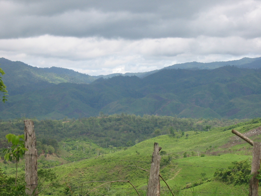 Río Plátano Biosphere Reserve (Honduras)